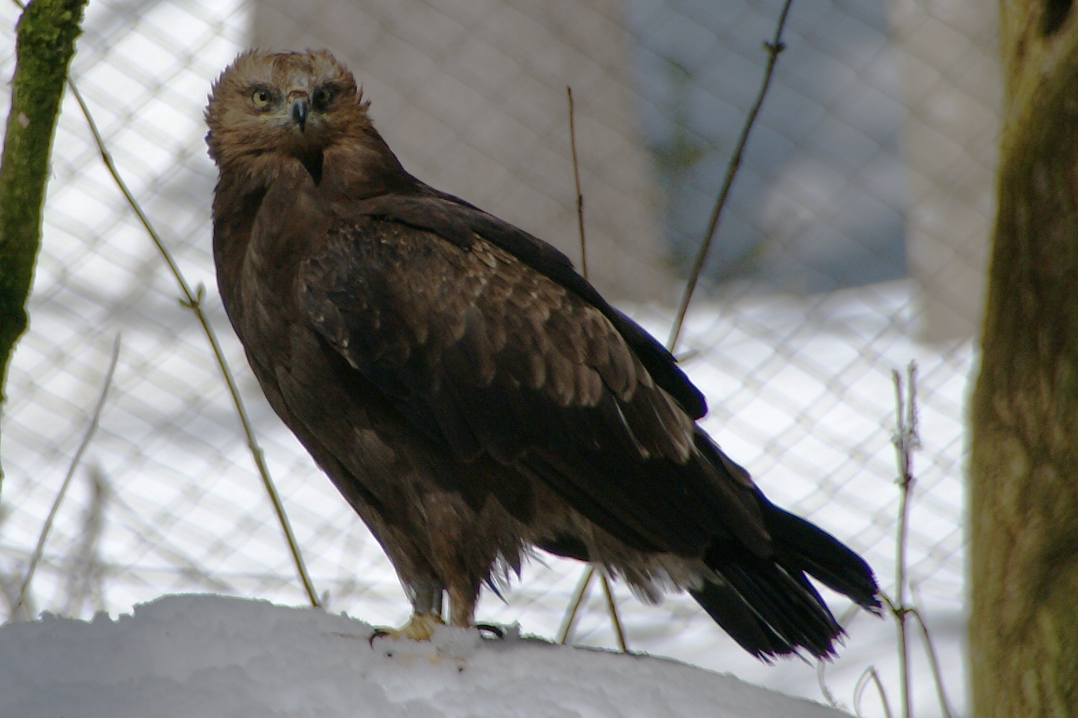 Lesser Spotted Eagle in an open-air enclosure at the National Park Bavarian Forest